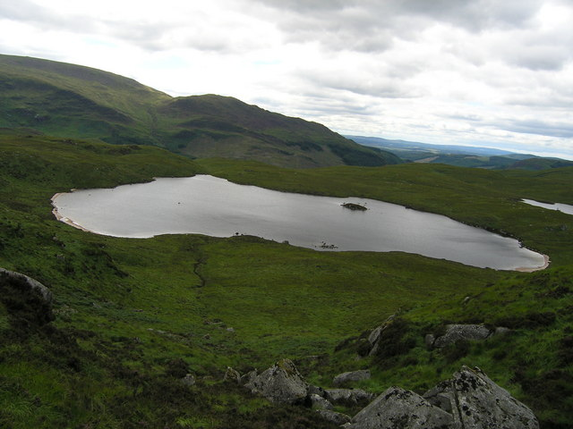 The Island on Round Loch of Glenhead